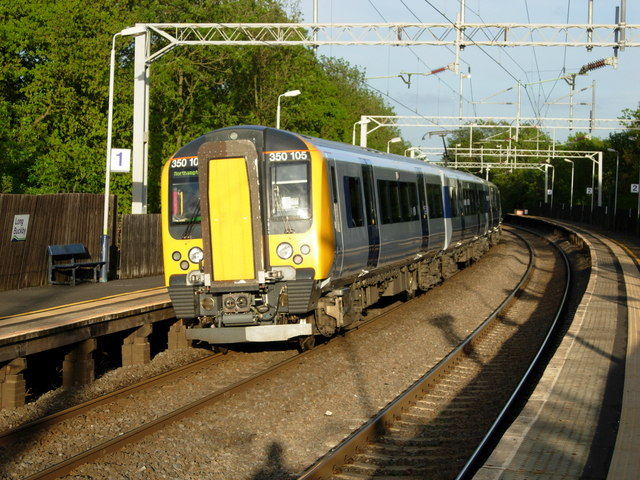 An evening Birmingham - Northampton train (Central Trains 350105) departs from Long Buckby.